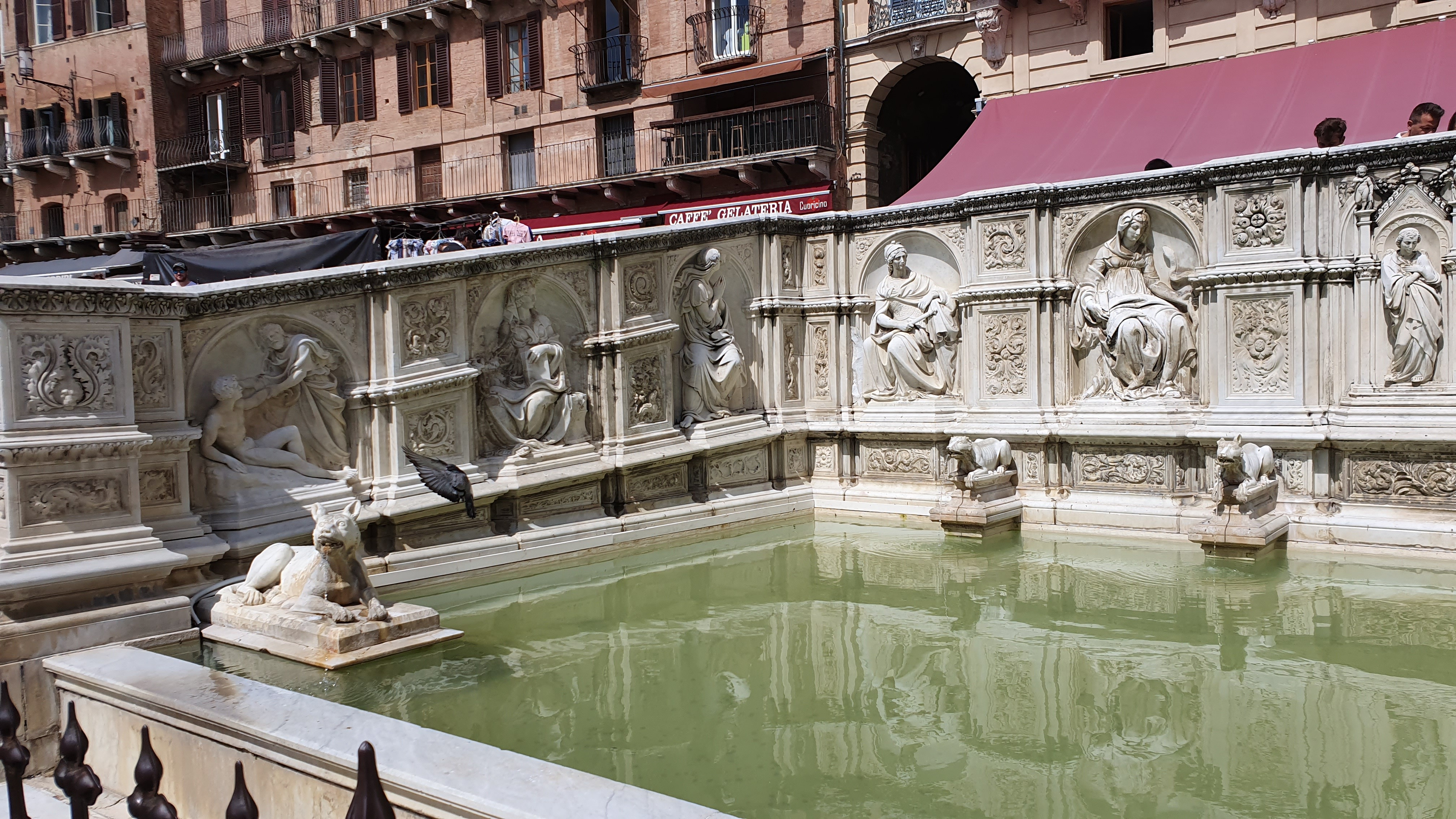 Jacopo della Quercia-Fonte Gaia in Siena Left side with Creation of Adam